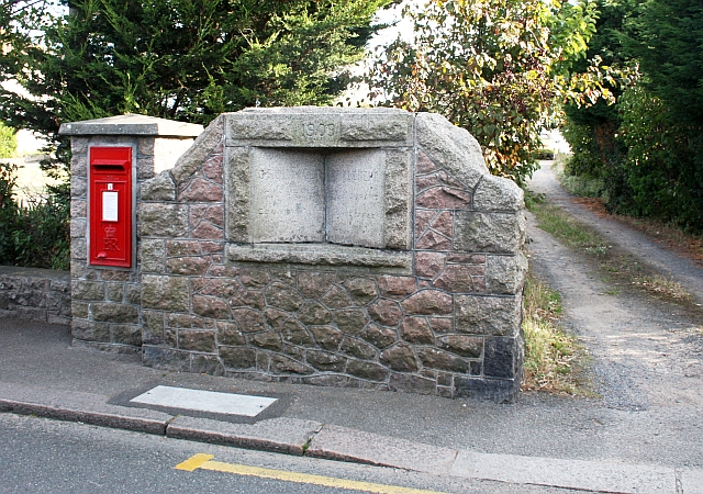 Parish boundary stone. Marking the boundary between Grouville on the left and St Clement on the right. It gives the names of the Constable in each parish - in 1909.